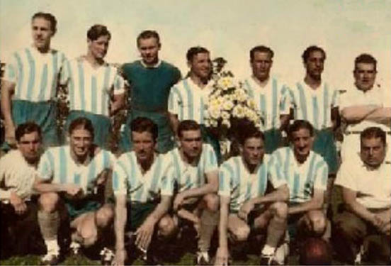 The Argentino de Quilmes team that won its first title in 1938.